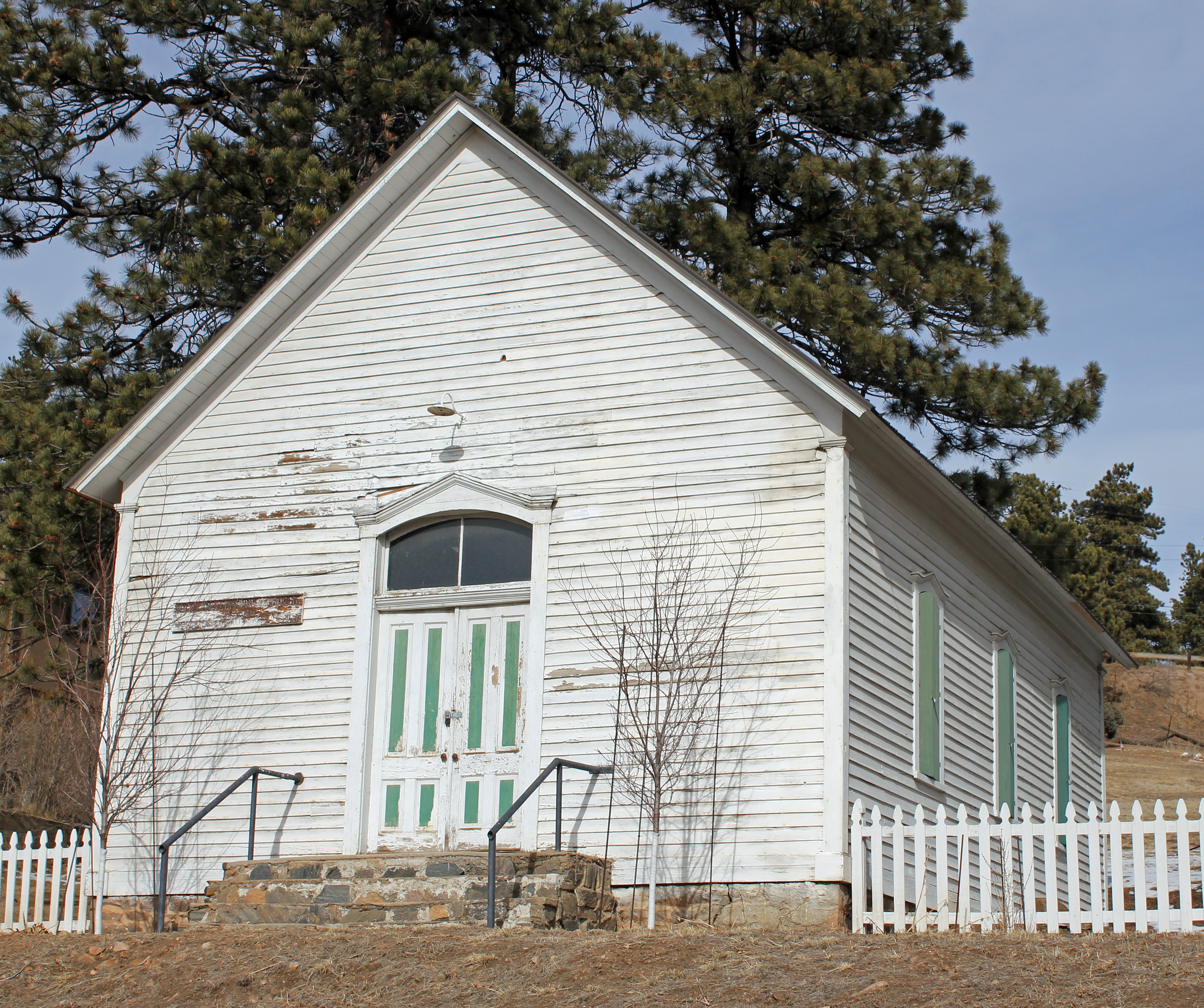 The Rockland Community Church and Cemetery, located at 24225 Rockland Road in Golden, Colorado. The property is listed on the National Register of Historic Places.